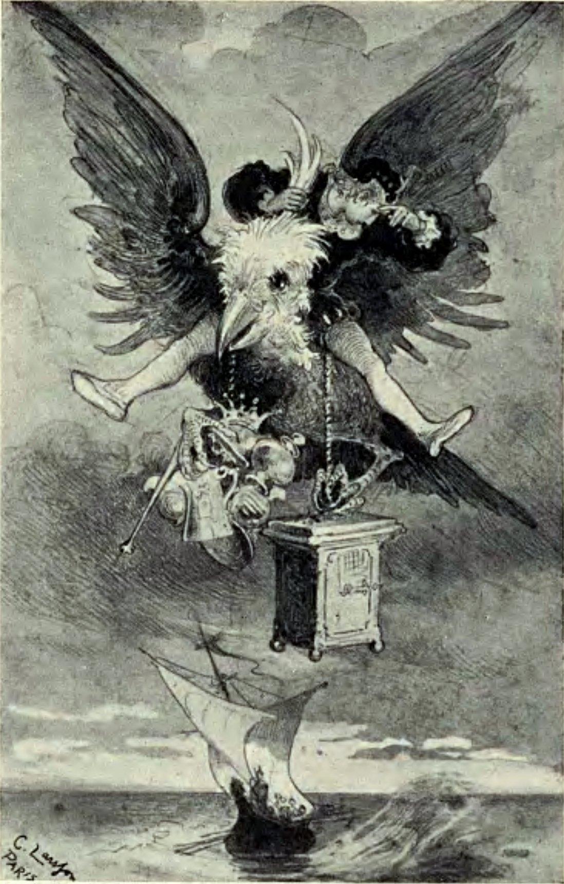 Illustration by Carl Larsson of the book "Folksagor" by Asbjörnsen and Moe, Stockholm 1927